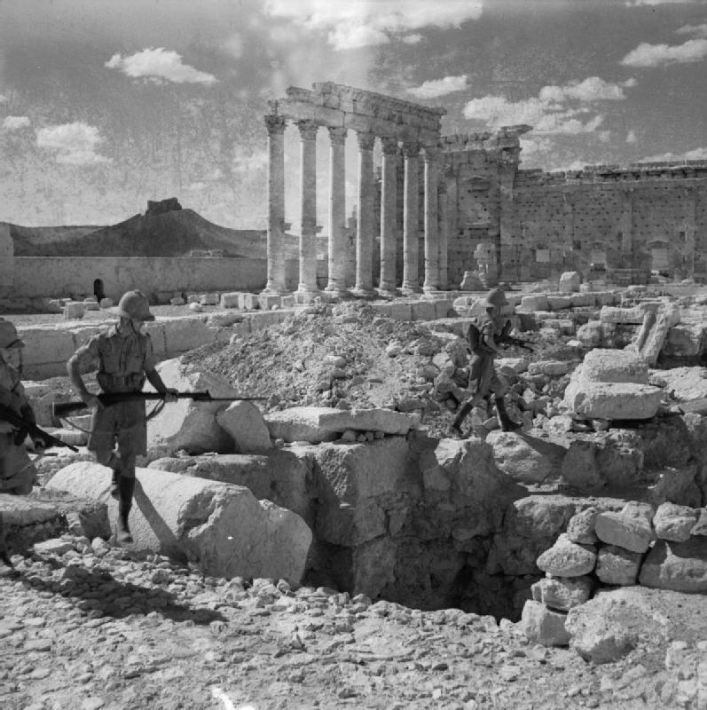 The British Army in the Middle East 1941 British troops searching the ruins of the Temple of Ball, near Palmyra, for any sniper's posts which were manned by local Arabs who were forced to act as snipers by the Vichy French, 12 July 1941.